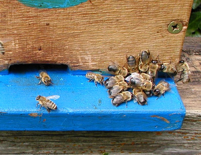 Description: Drone bees are pushed away